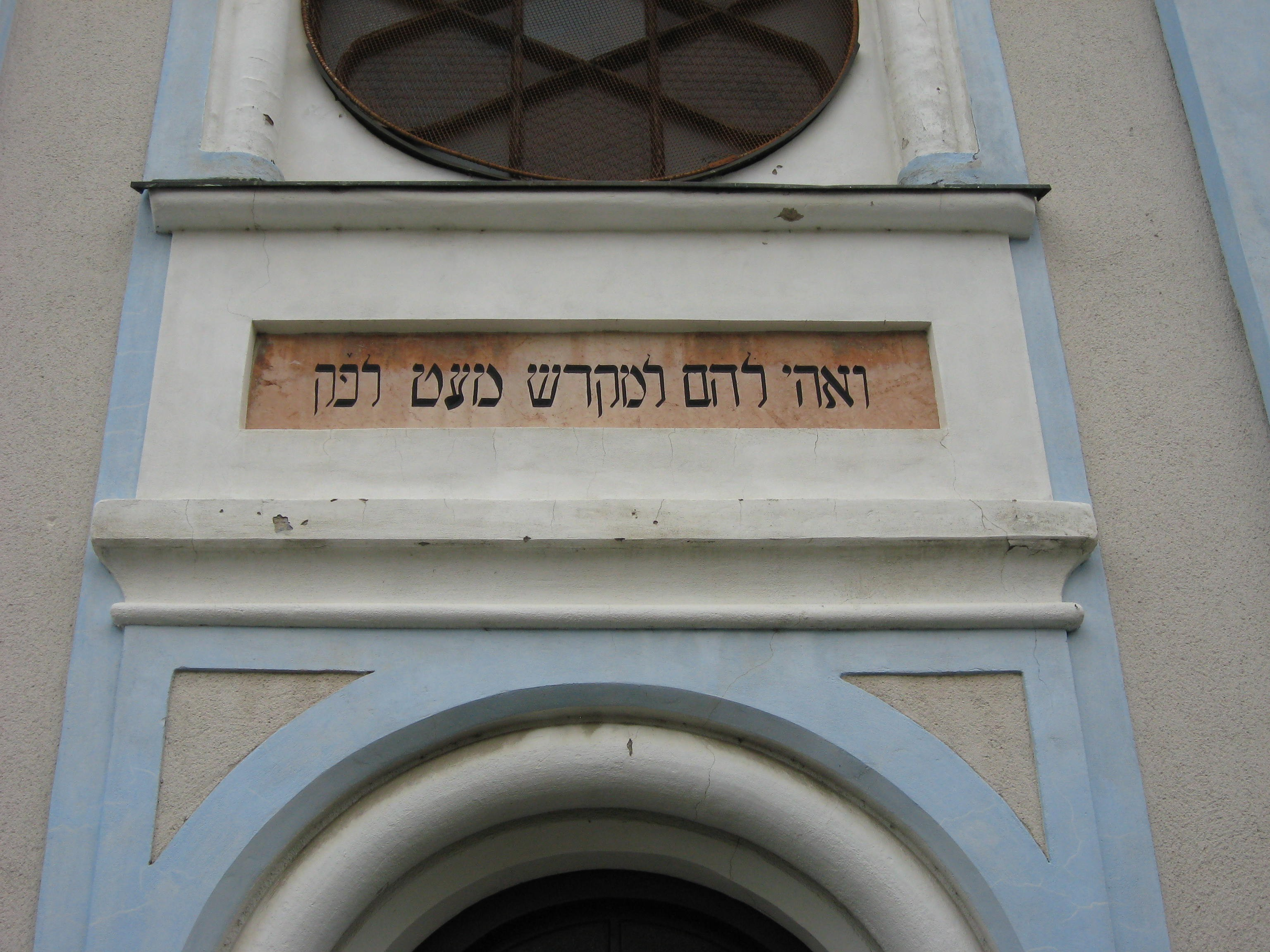 The Portal of Synagogue in Nové Zámky